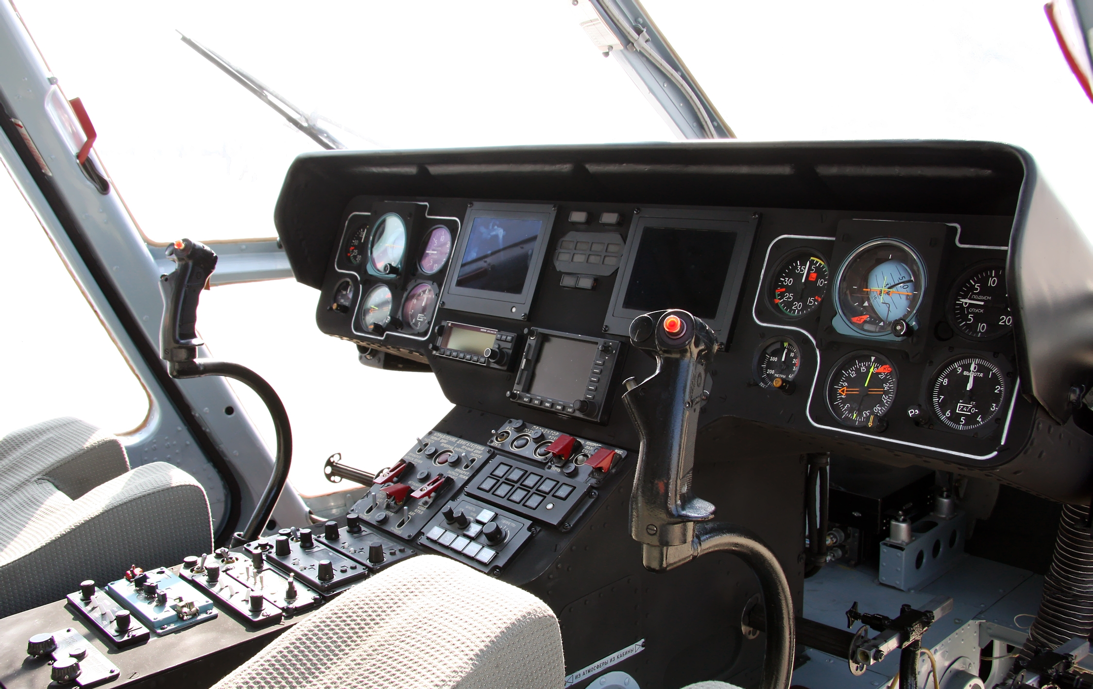 Kazan Ansat (RA-20012) cockpit.